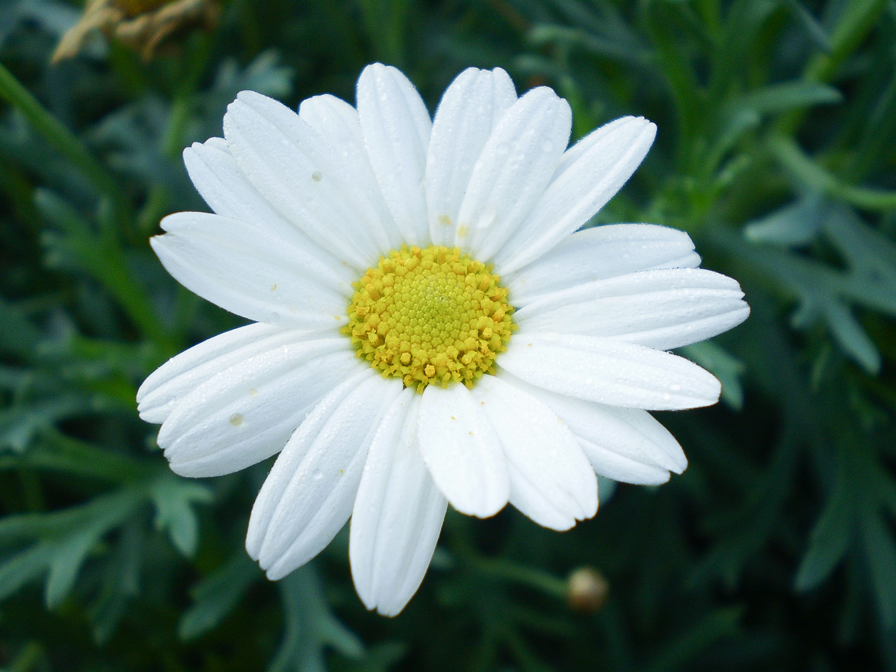 heestermargriet. Argyranthemum frutescens. chrysanthemum frutescen.